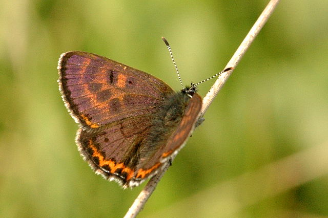 Picture taken in Commanster, Belgian High Ardennes . Species: Lycaena helle